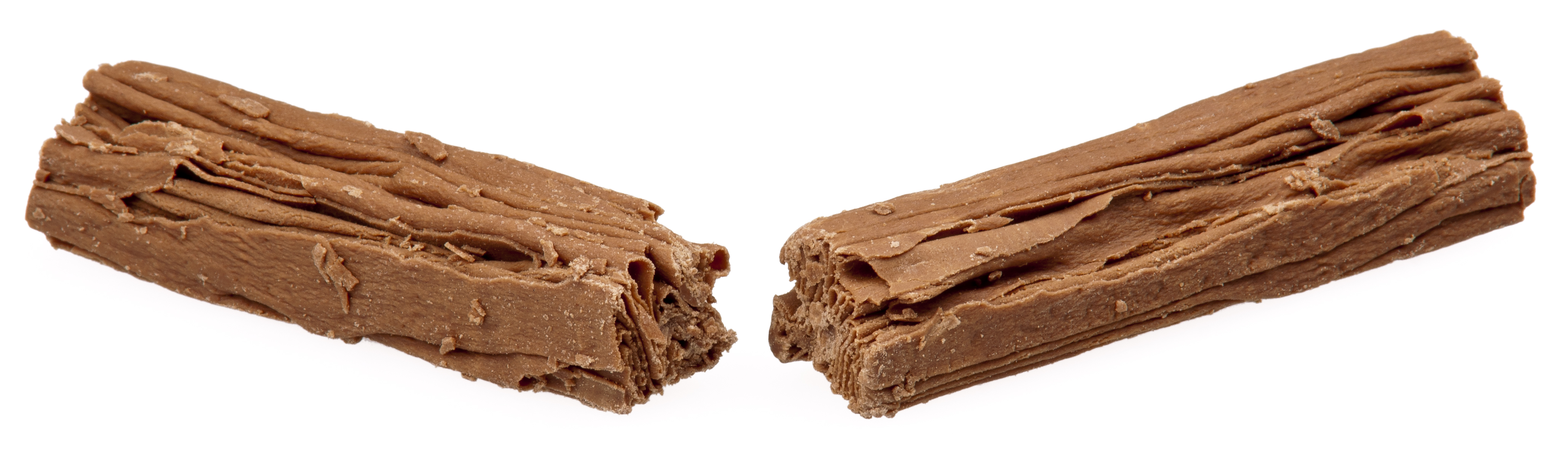 A Cadbury Flake bar that has been split in half.